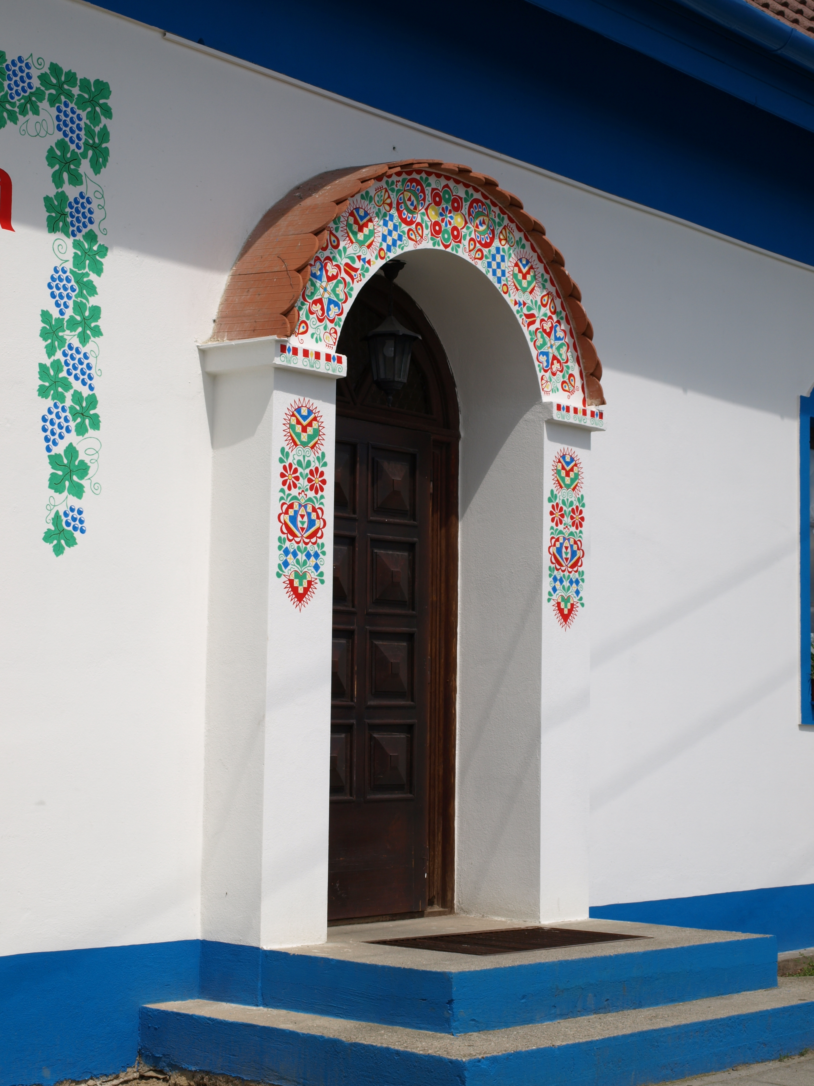 A coloured house-entrance in Svatobořice-Mistřín, CZ